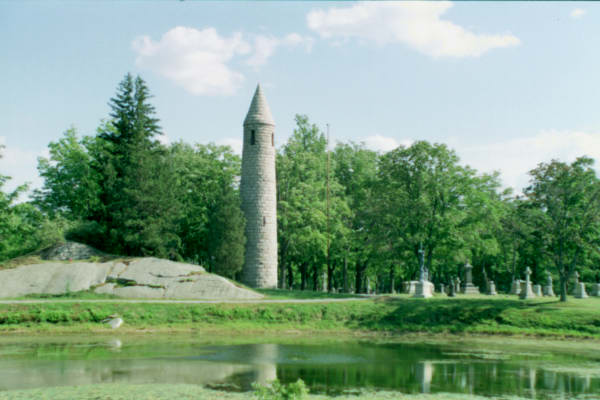 Irish Round Tower in the Summer in Milford, MA USA